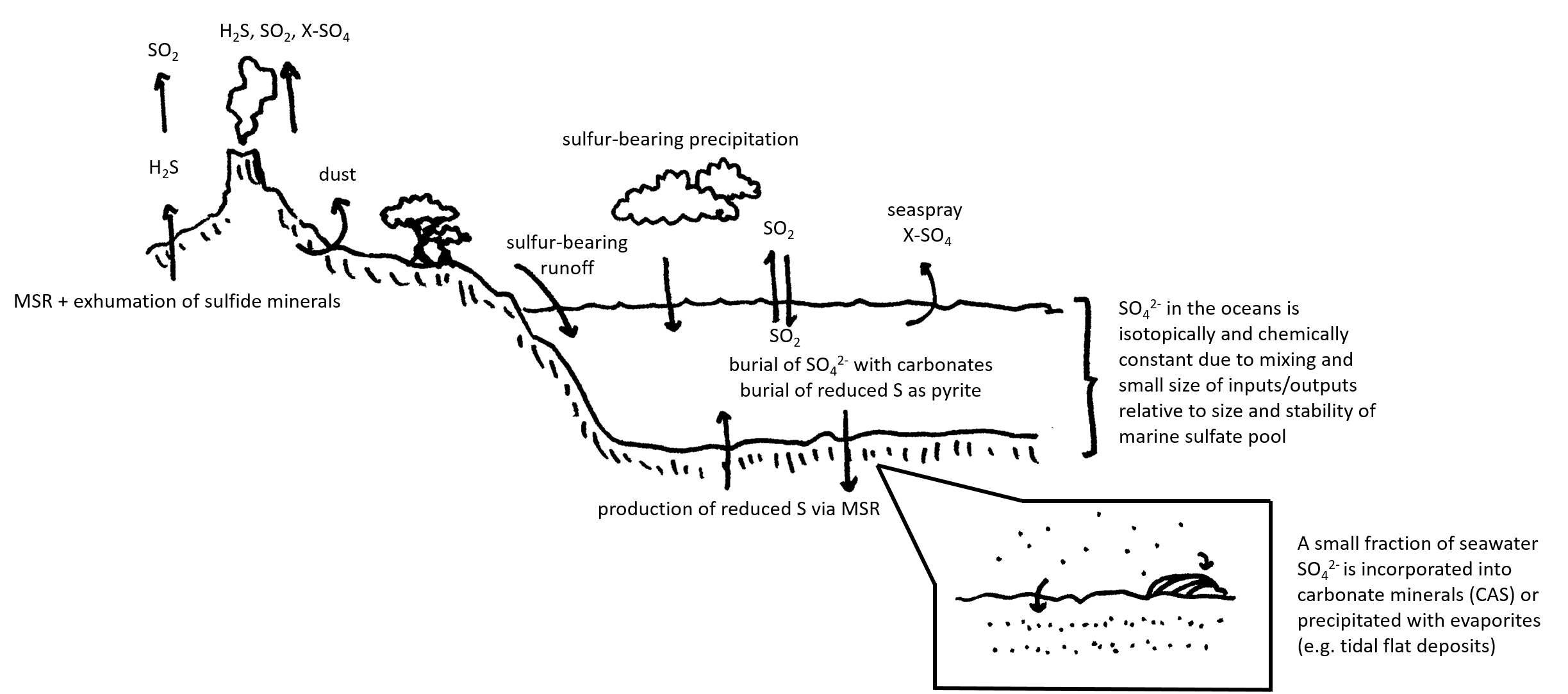 A cartoon/schematic showing inputs and outputs of the sulfur cycle, with an inset cartoon explaining how seawater sulfate can be incorporated into biogenic and abiogenic carbonate minerals and preserved.